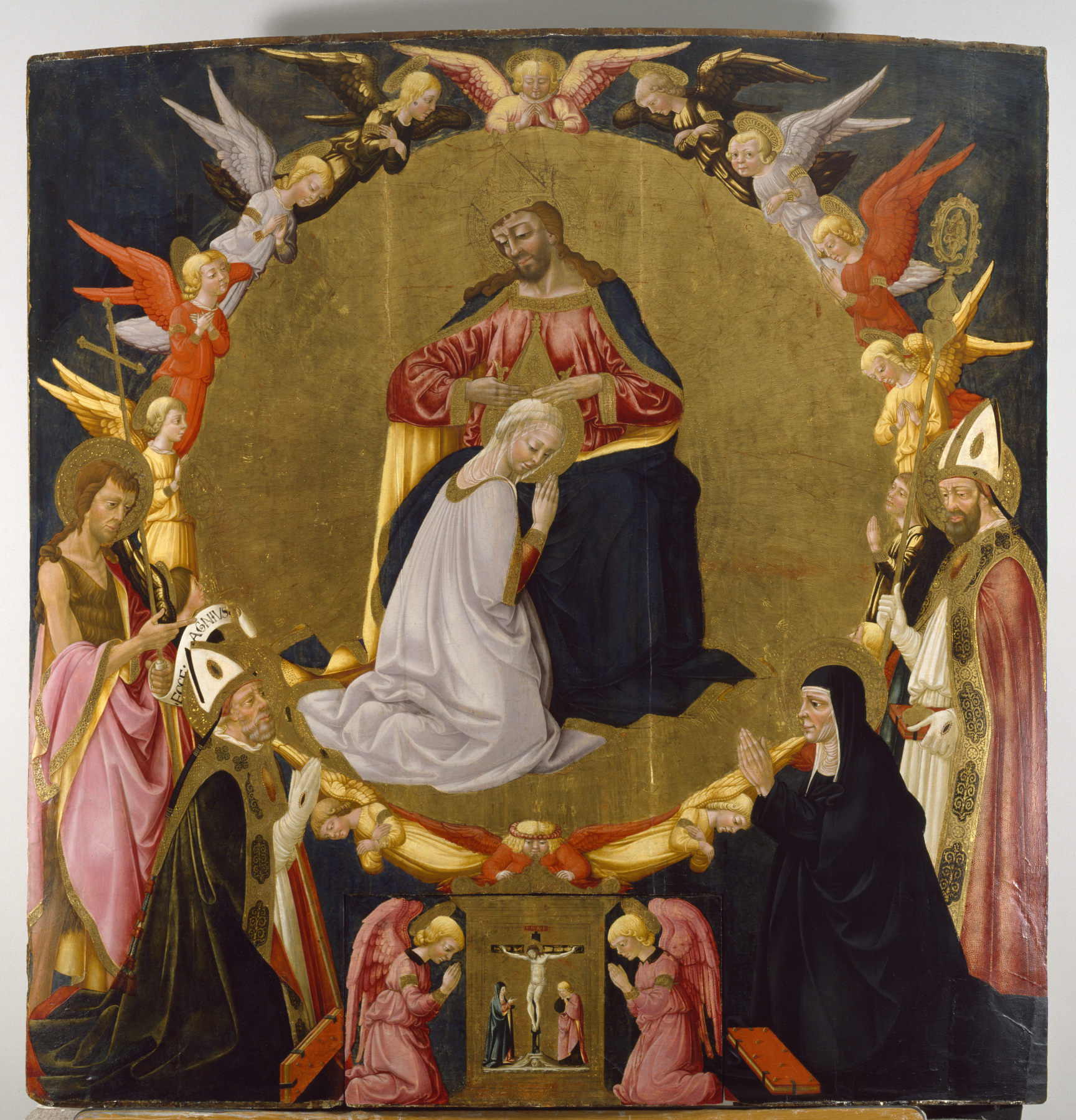 On this altarpiece, Christ places a crown upon the head of his kneeling mother, the Virgin Mary, an act symbolic of their status as King and Queen of Heaven. The golden circle surrounding the couple has been engraved with different tools. This ornament suggests the music of the heavenly spheres (the movement of the planets believed to produce harmonies, which could not be heard by humans). Around the circle is a host of worshiping angels; below are Sts. John the Baptist, perhaps Augustine and his mother Monica, and Nicholas of Bari. At the bottom of the panel, in the center, angels kneel on either side of a painted tabernacle depicting the Crucifixion. This section was cut and hinged to provide a recess in the altarpiece that may have housed the consecrated Host for use in the Mass. For more information on this altarpiece, please see Zeri catalogue number 54, pp. 87-89.